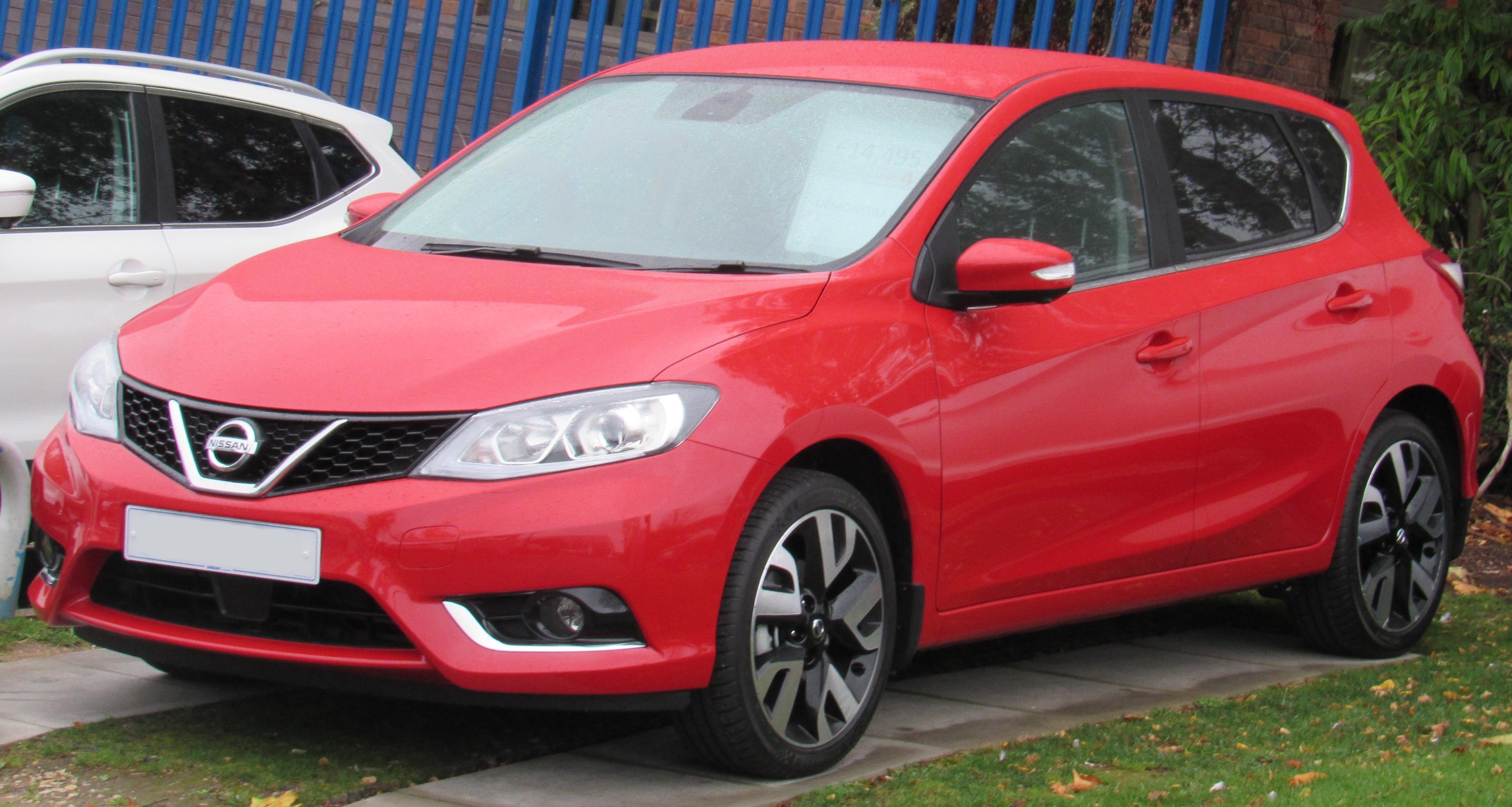 2017 Nissan Pulsar Tekna Dig-T 1.2 Taken at Arbury Nissan, Leamington Spa